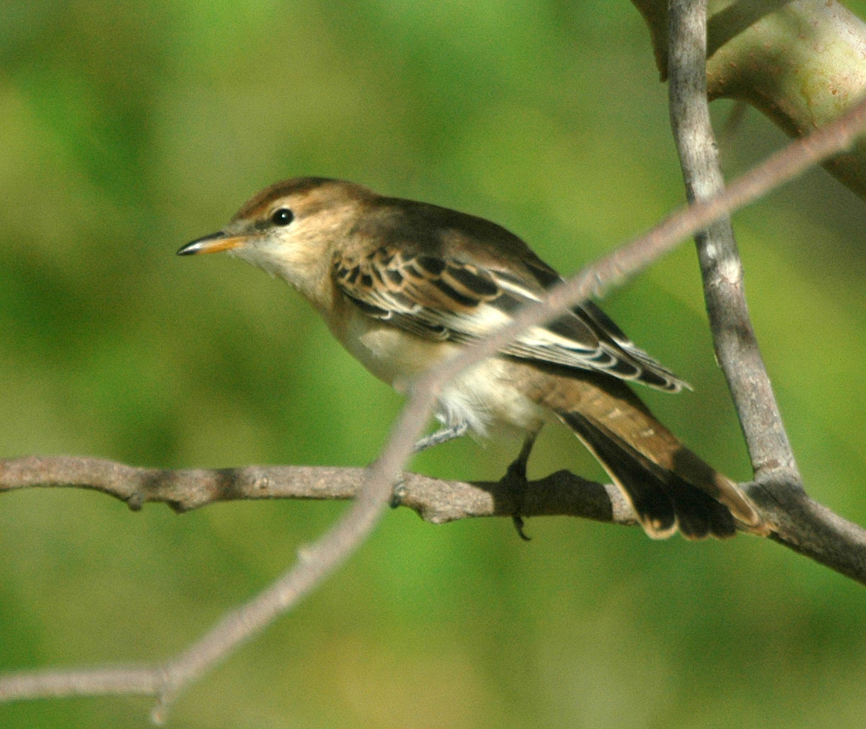 White-winged Triller (Lalage tricolor) Bowra, SW Queensland, Australia